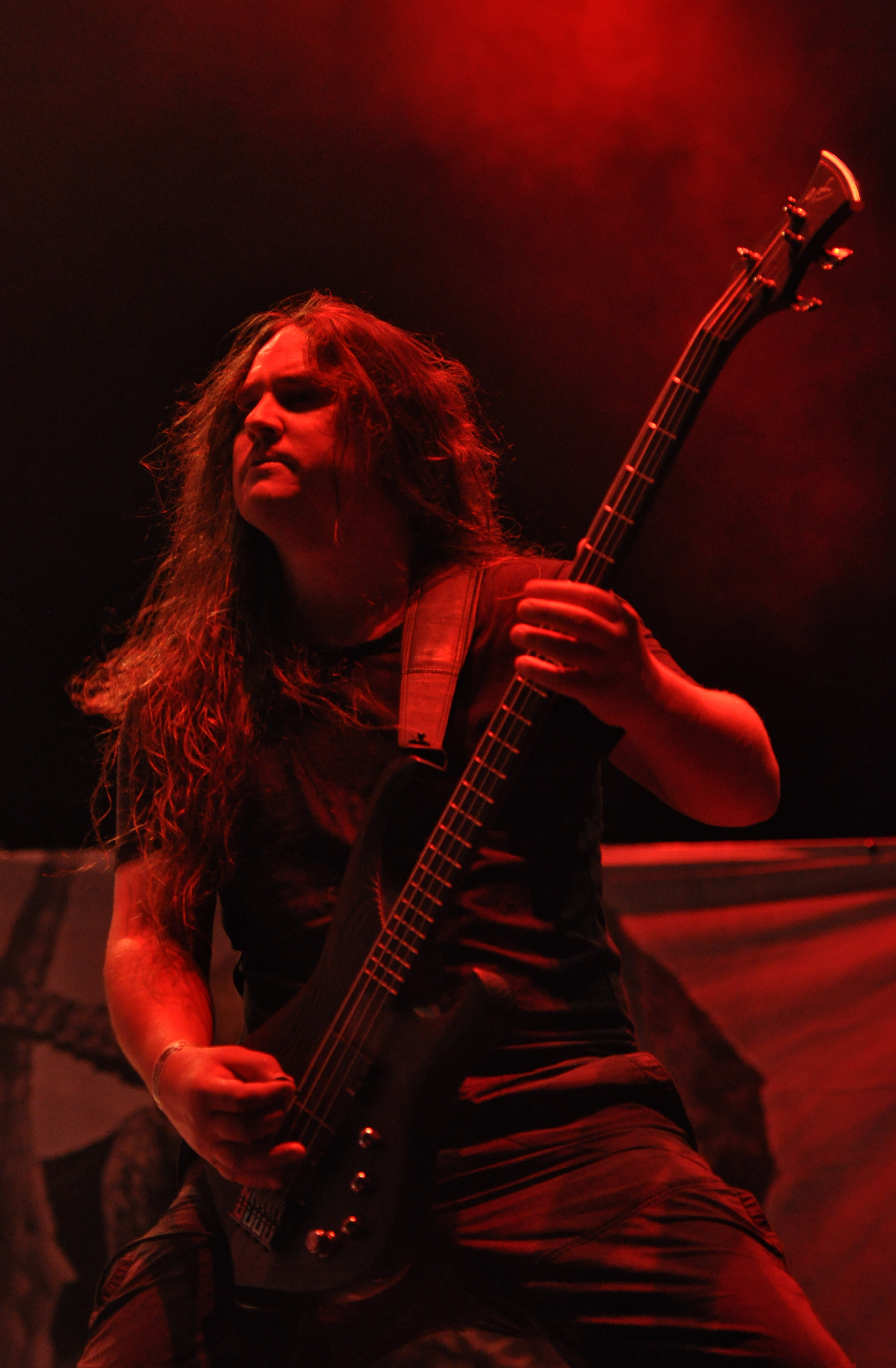 Hypocrisy at Party.San Metal Open Air 2013